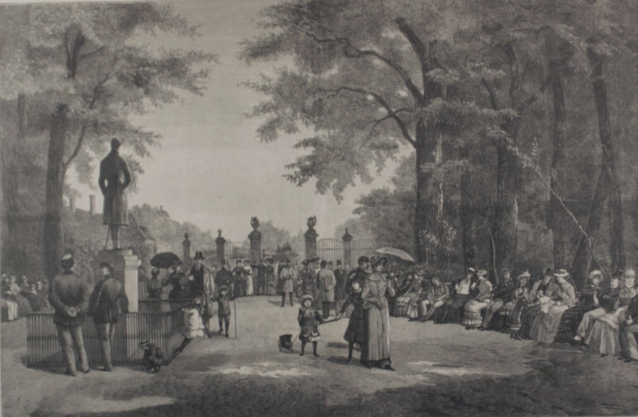 The entrance of Frederiksberg Have seen towards Frederiksberg Runddel in Frederiksberg, Copenhagen, Denmark